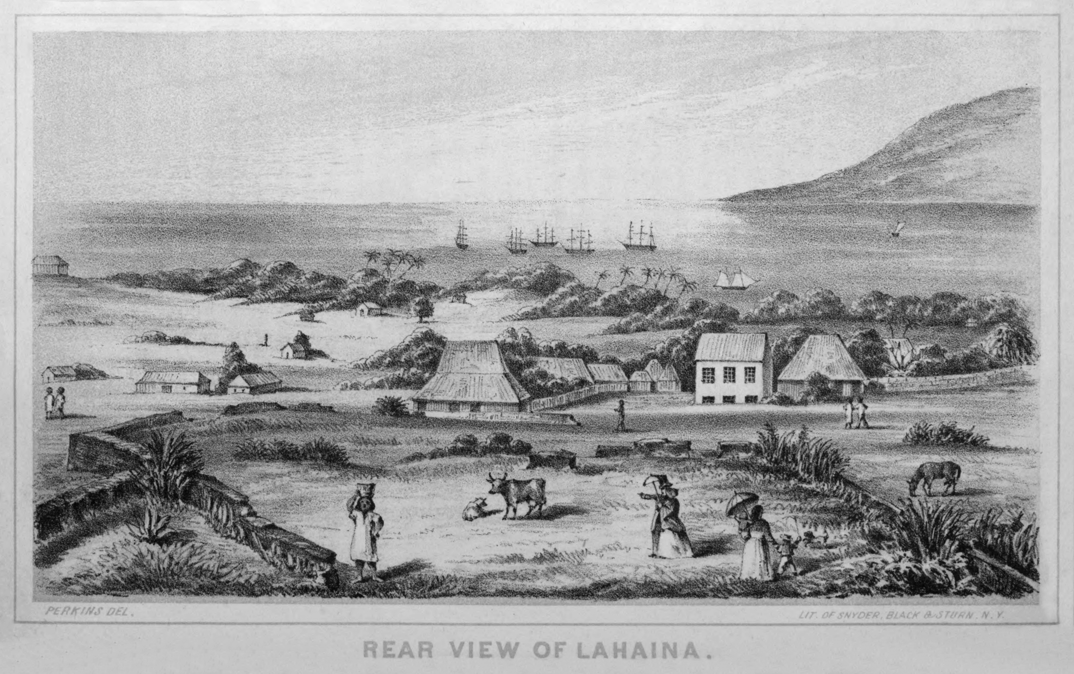 Rear View of Lahaina.